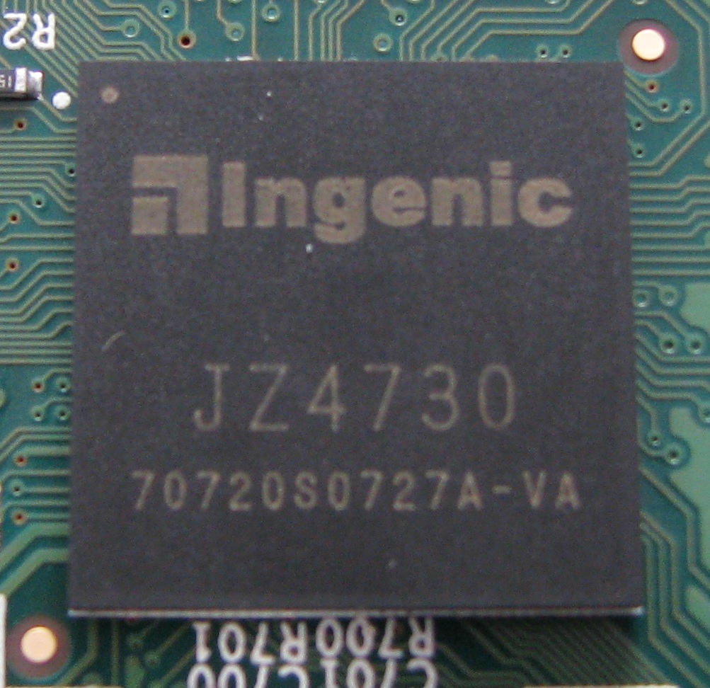 Ingenic JZ4730 SoC in the Skytone Alpha 400